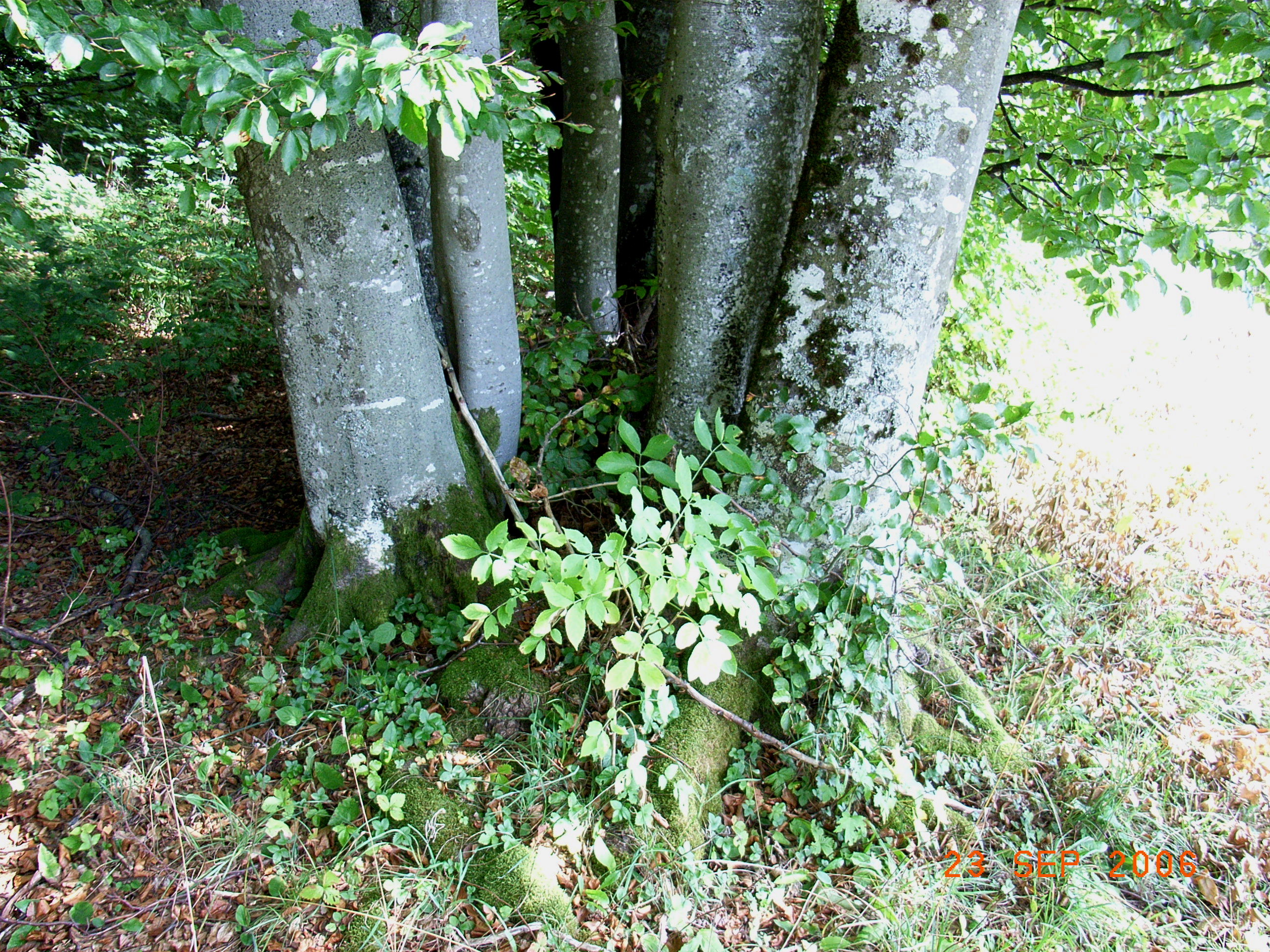 young Fagus sylvatica with tendency to form one trunk